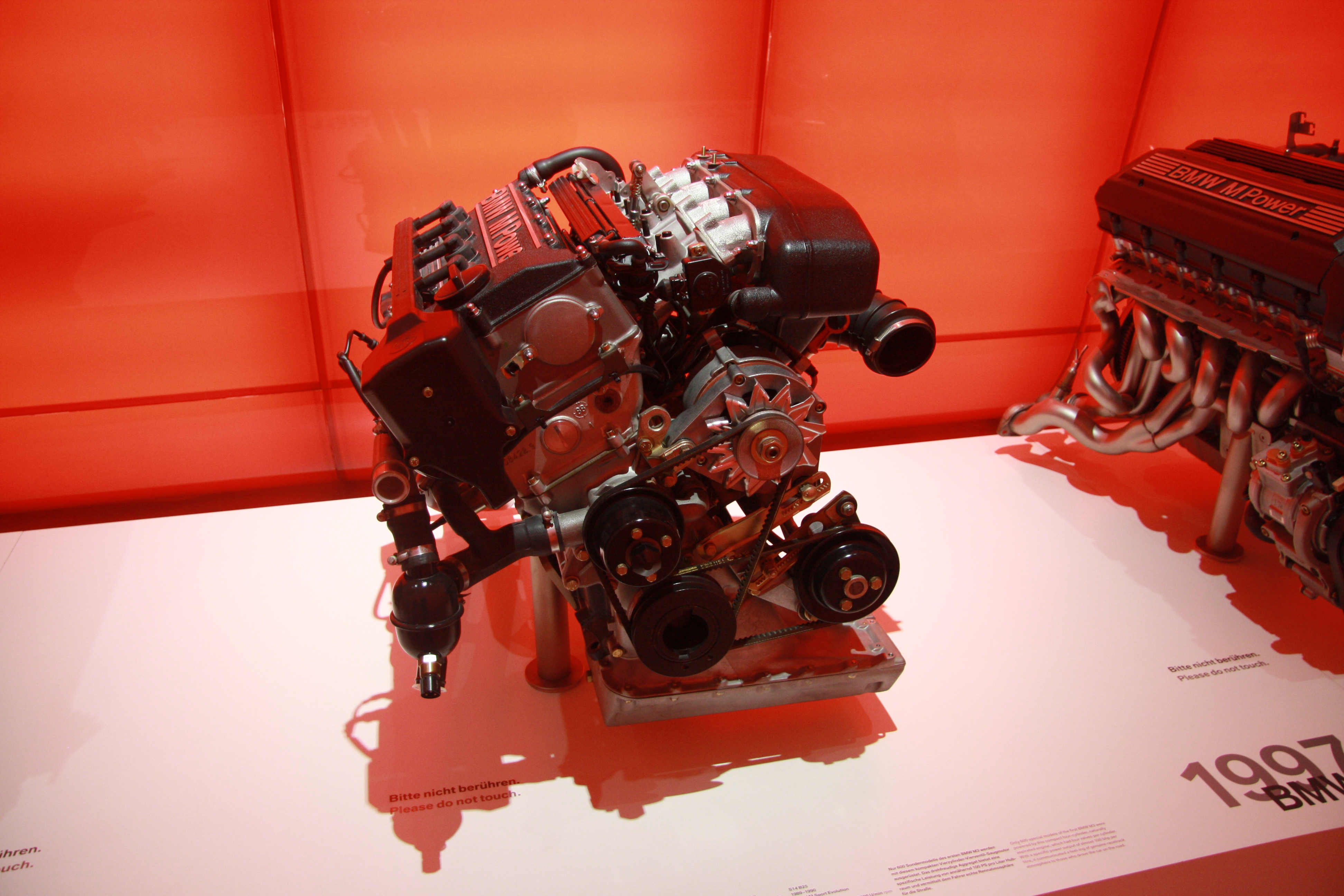 BMW S14 B25 photo 2 engine in BMW-Museum in Munich, Bayern.